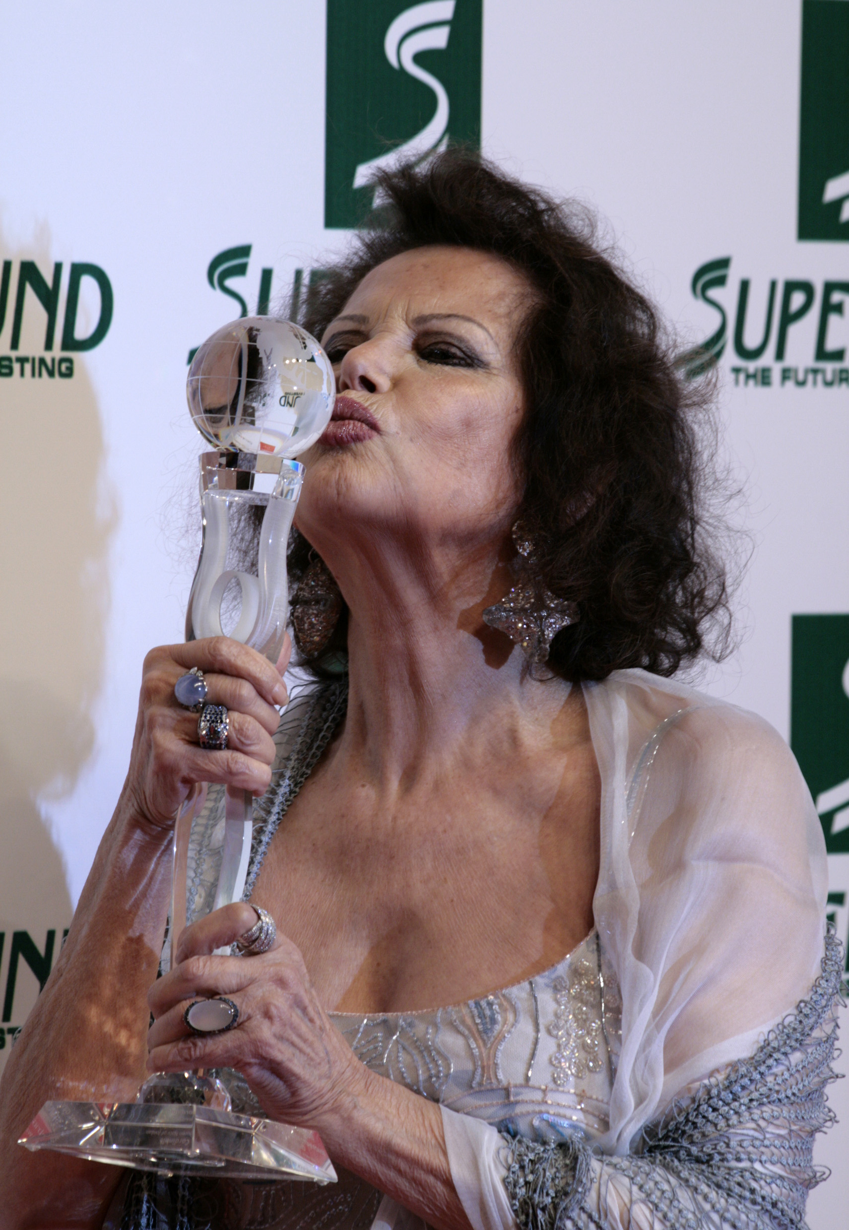 Claudia Cardinale at the Women's World Award 2009 (Wiener Stadthalle, Vienna, Austria).